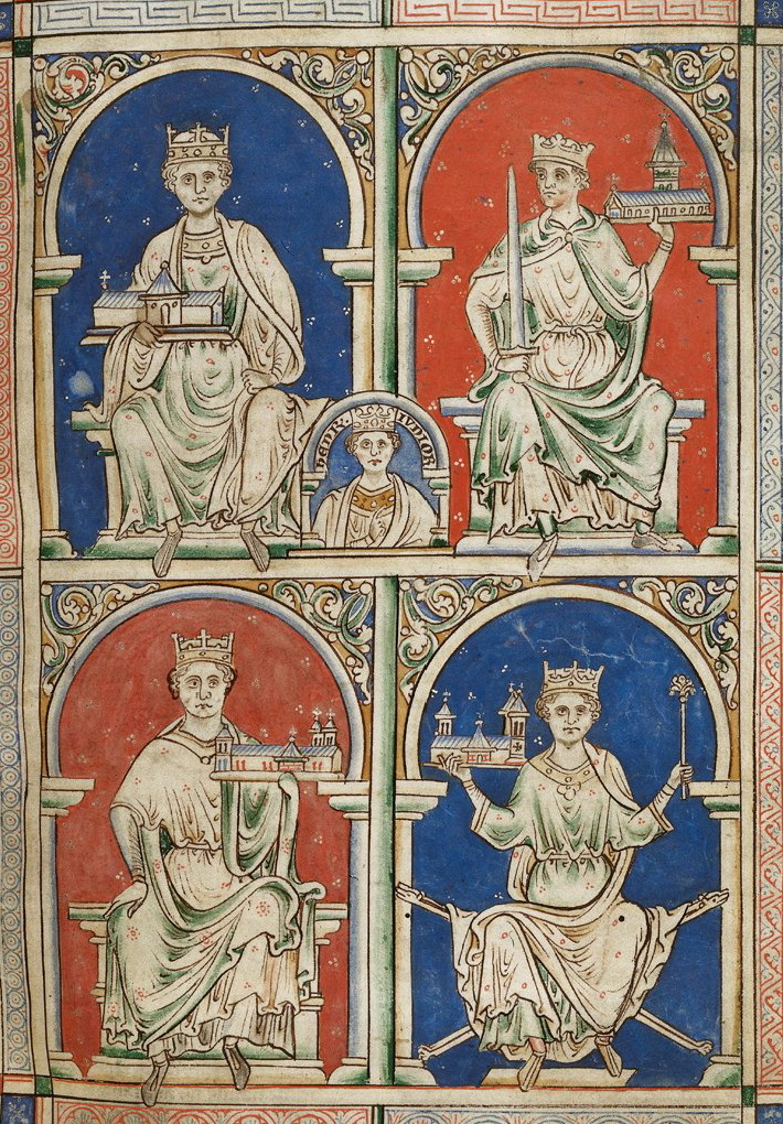 Portraits of English kings: Henry II, Henry the Younger and Richard I Lionheart, in the upper register, and John Lackland and Henry III, in the lower register. (British Library, MS Royal 14 C VII f.9)